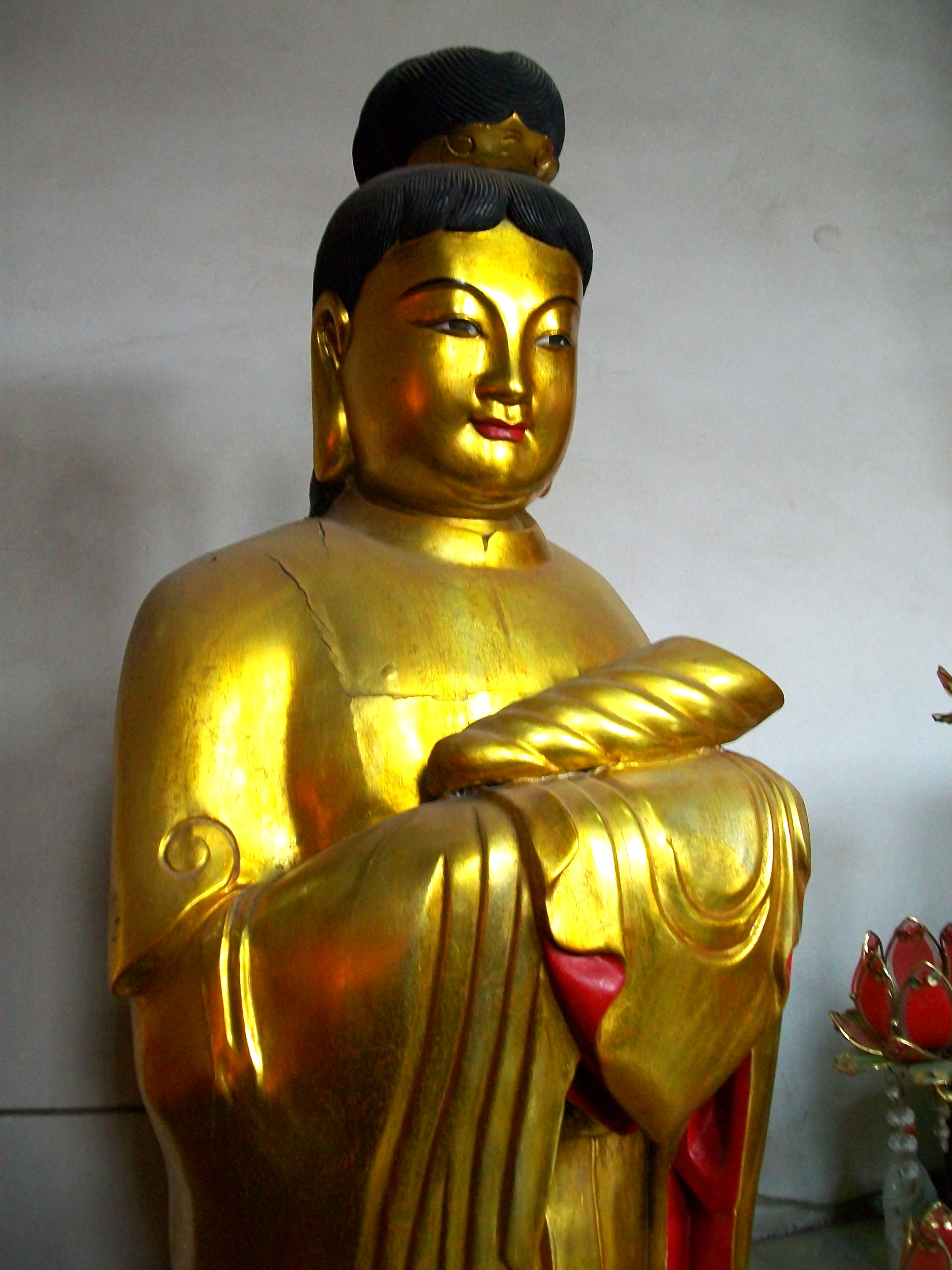 Naga maiden from the Lotus Sutra, called "Long Nu" in Chinese.